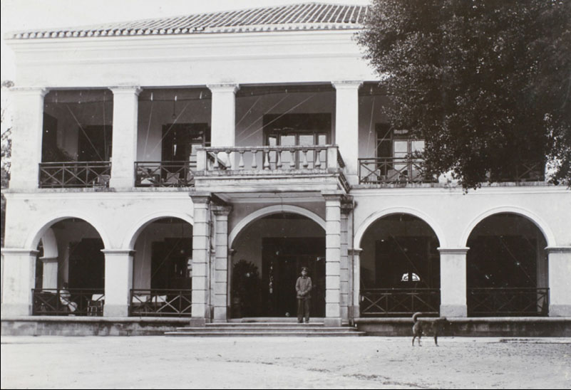 The Foochow Club